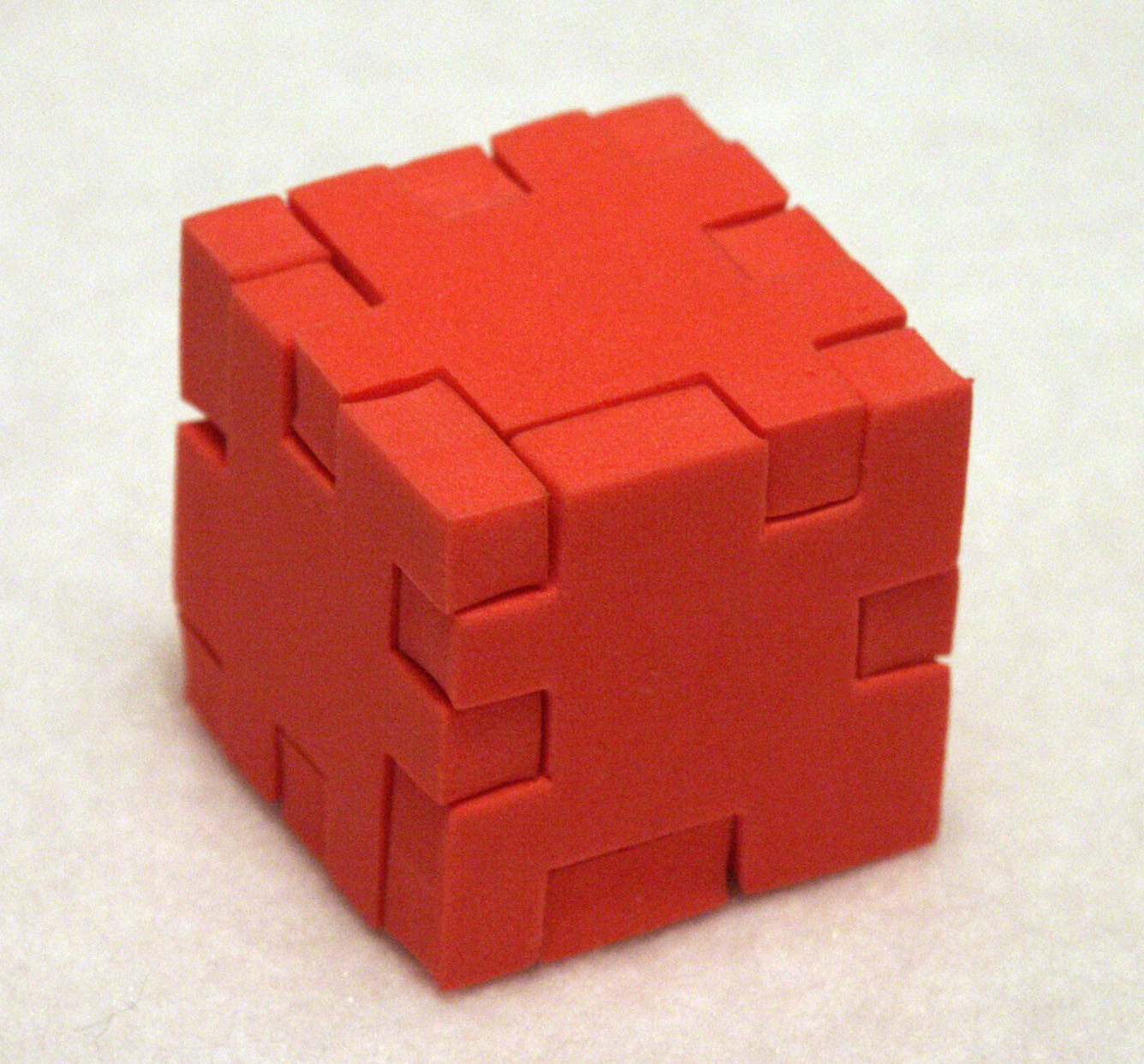 Happy Cube paris model